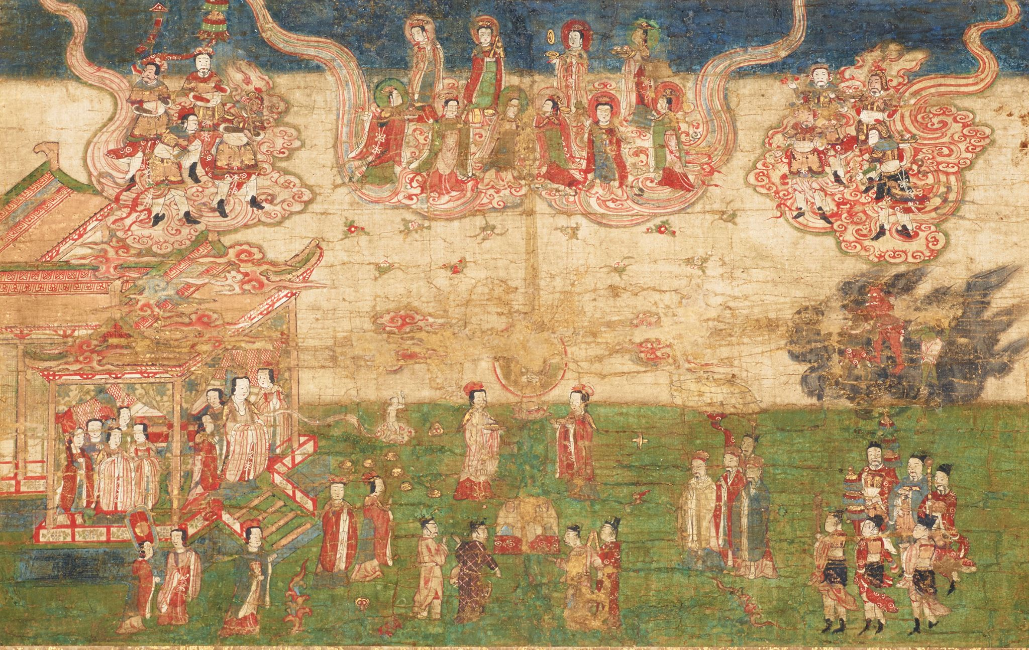 Birth of Mani, late Yuan or early Ming dynasty Chinese painting, 14th century. Colours on silk, 35.6 x 56.9 cm.